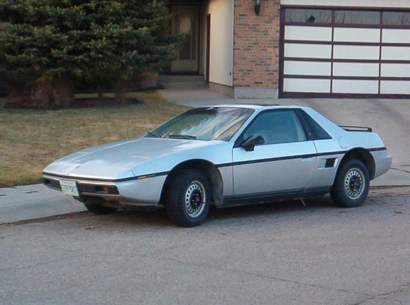 This is a picture of my 1985 Fiero sport coupe that I own. Anyone may use this image.